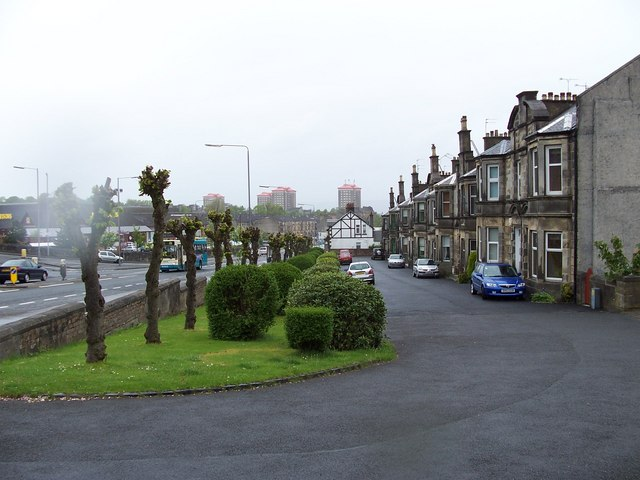 Neilston Road, Paisley. Looking north, towards the town centre.